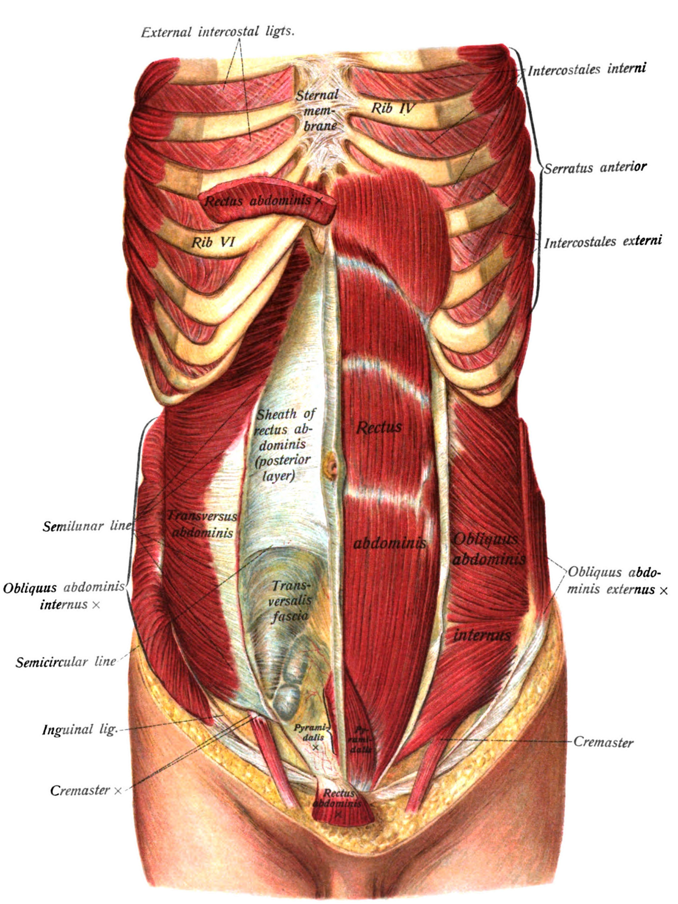 An anatomical illustration from the 1909 American edition of Sobotta's Atlas and Text-book of Human Anatomy with English terminology